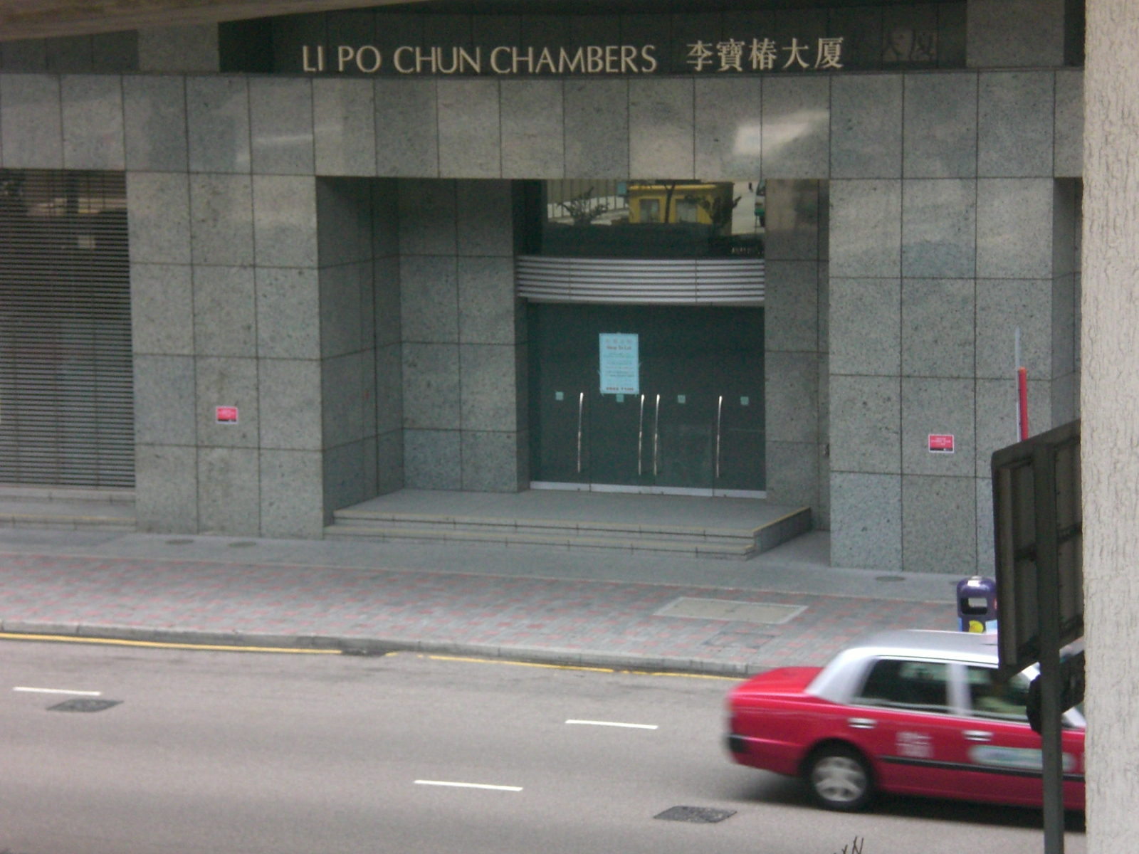 干諾道中 中西區 中環 Photographer is User:SeaLai Ho